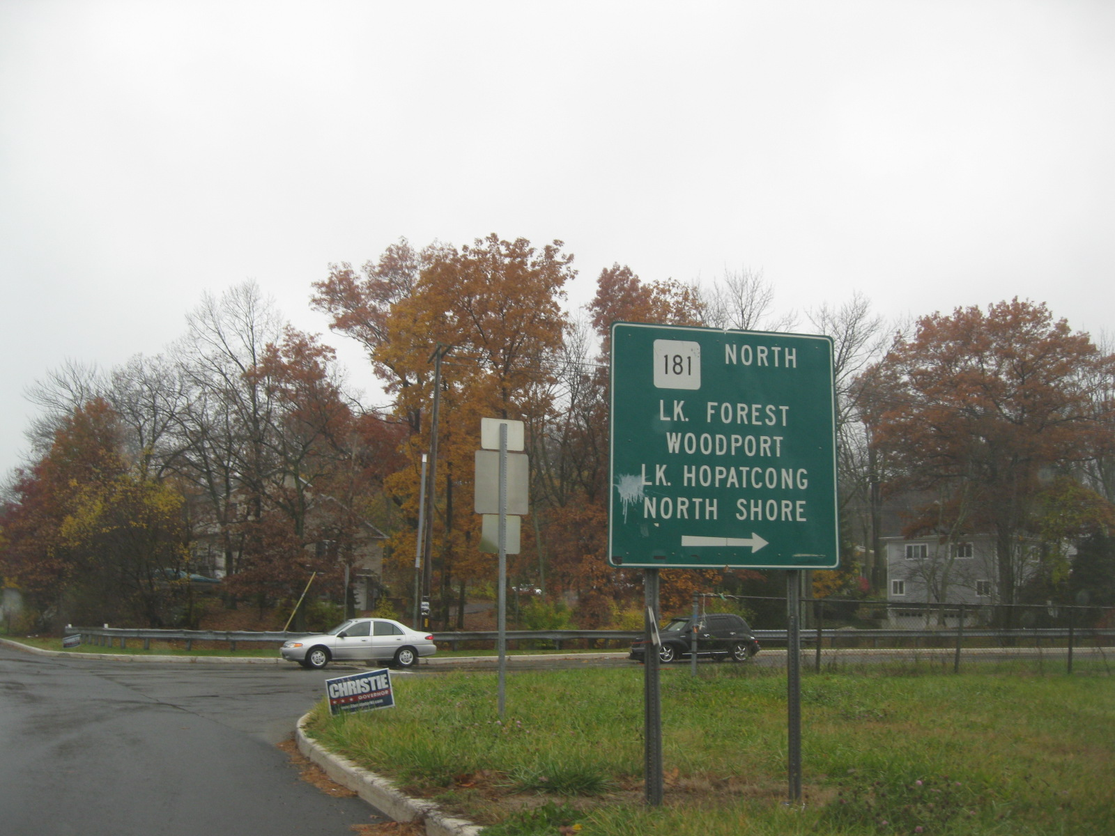 New Jersey State Route 181 at its southern terminus in Espanong with signage detailing it as a Massachusetts state highway.